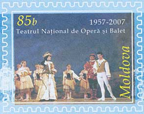 Stamp of Moldova